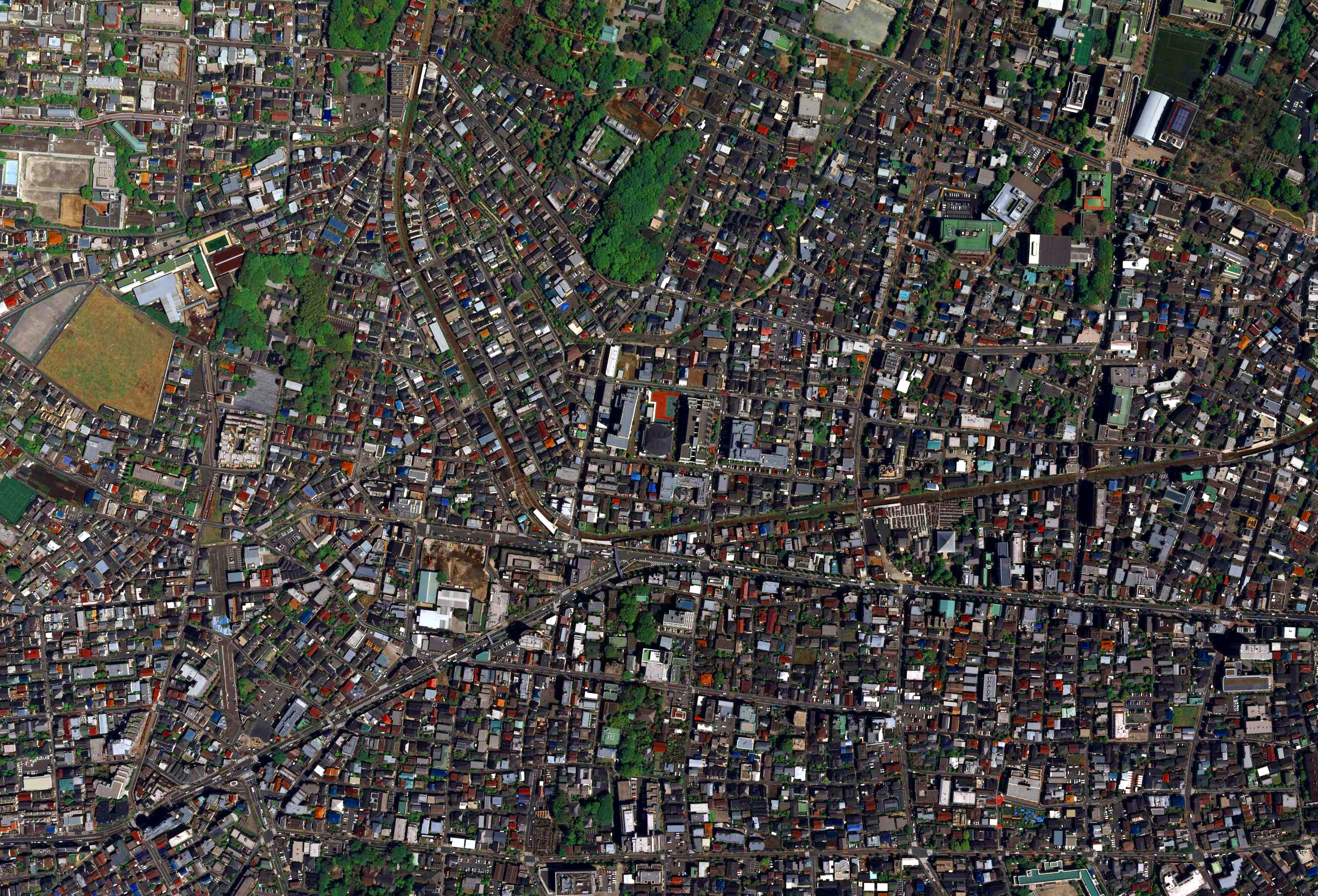 The Geographical Survey Institute took the aerial photograph in Setagaya Ward, Tōkyō Metropolis on April 27, 2009.